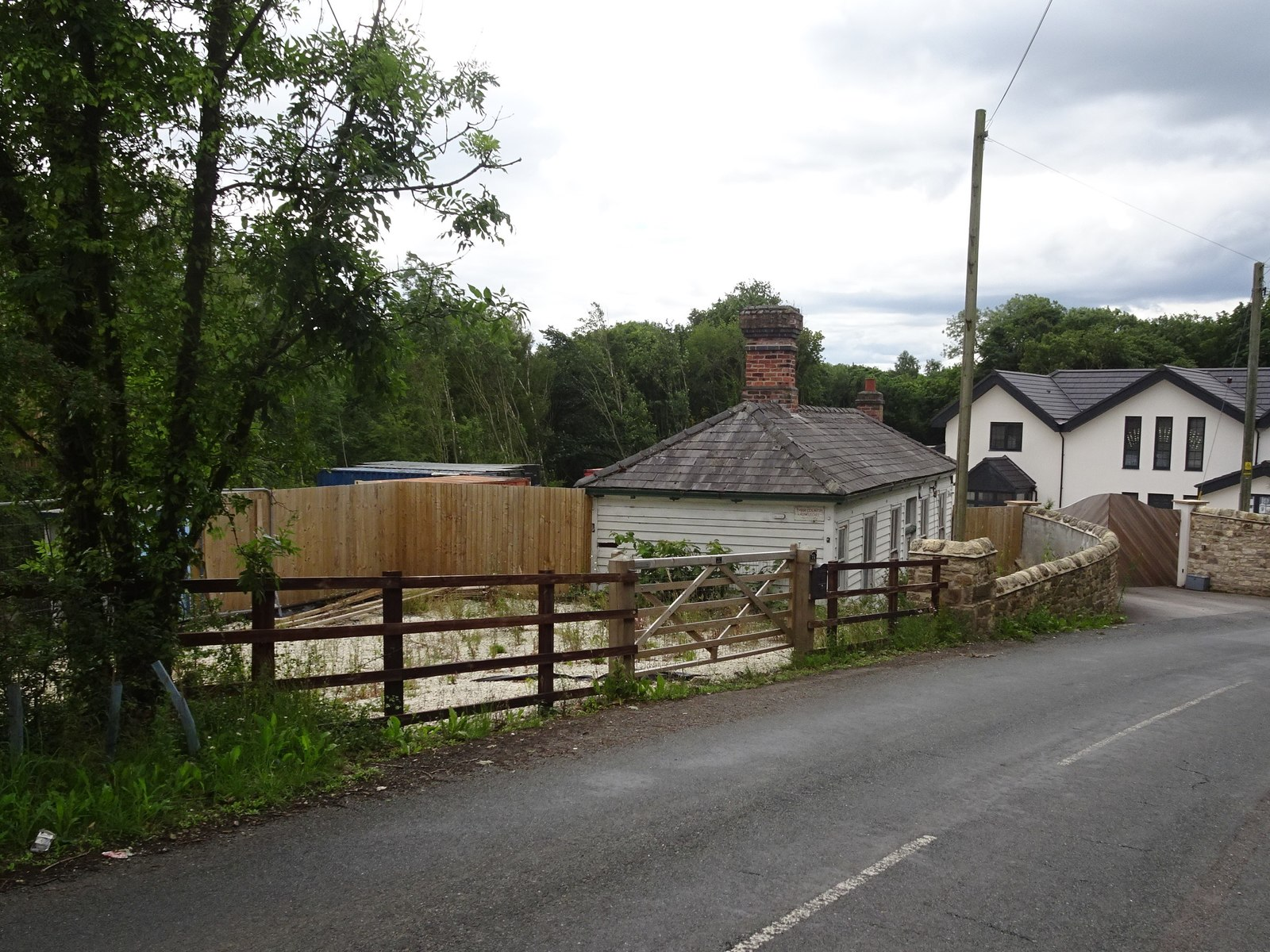 Sprotborough (H&BR) railway station (site), YorkshireOpened in 1894 by the Hull and Barnsley Railway on their branch from Wrangbrook Junction to Denaby & Conisbrough, this short-lived station closed to passengers in 1903. Goods services lasted until the 1960s. View south west towards Denaby & Conisbrough, and at the surviving station building. Viewed from the road side, the track and two parallel platforms had been to the left of the wooden station building, behind the wooden fencing.